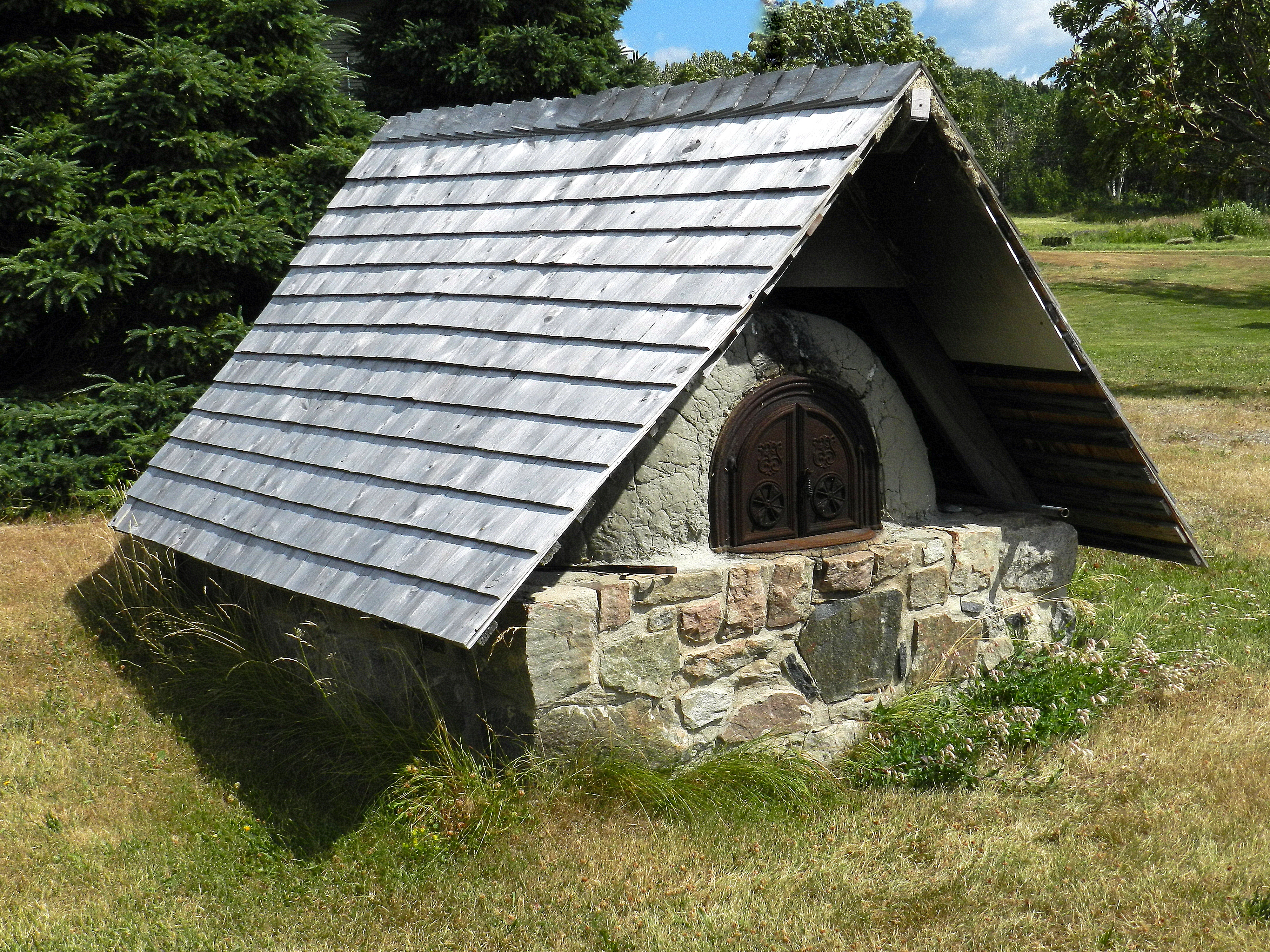 Antique bread oven, Port-au-Persil, Québec Province